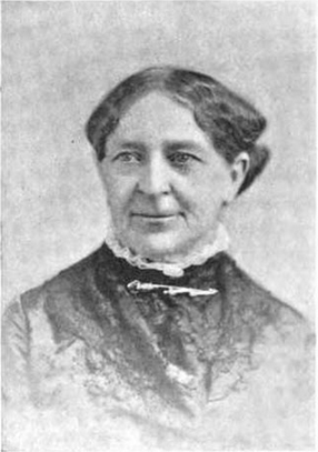 Caroline M. Seymour Severance